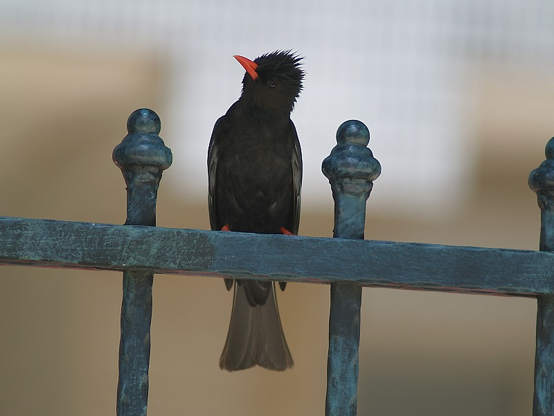 Black Bulbul(Hypsipetes leucocephalus), Taipei Botanical Garden, 2008.Bân-lâm-gú: Âng-tshuì-pi-á, ha̍k-miâ:Hypsipetes leucocephalus. nn̄g-tshing khòng peh nî tī Tâi-pak Ti̍t-bu̍t-hn̂g. 紅喙嗶仔，學名：Hypsipetes leucocephalus，2008年佇臺北植物園。